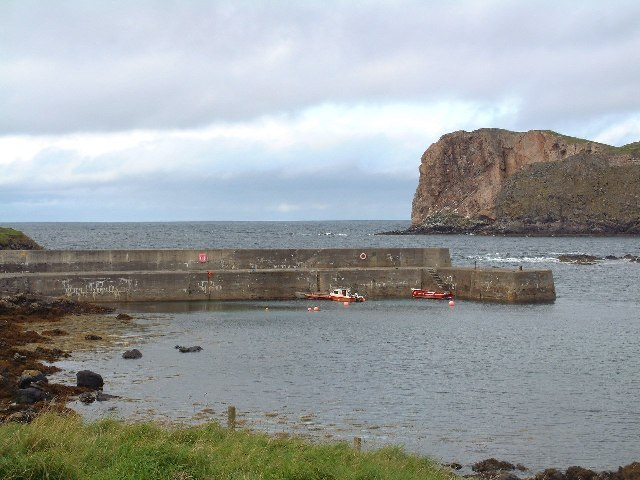 Skerray harbour. boat operating from the harbour makes visits to some of the offshore islands. A few fishing vessels are also based here.